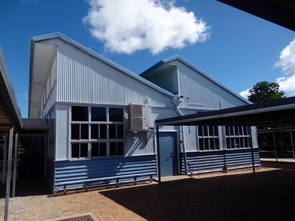 650046, Block R, east elevation